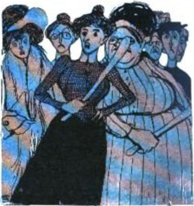 Rose: "With half a dozen English feminists, I think I will be able to fire the parliament!"